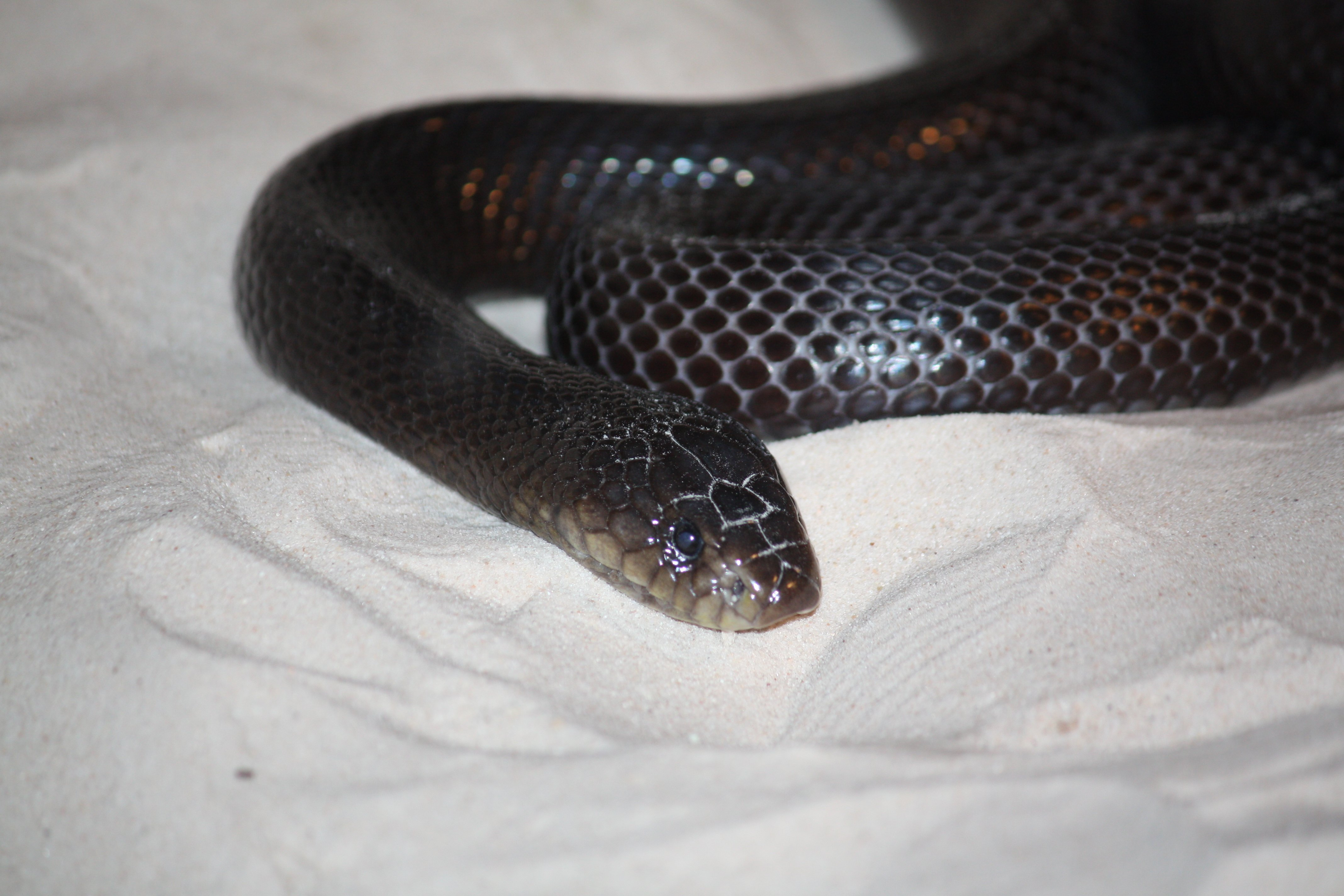 Sinai Desert Cobra ( Walterinnesia aegyptia)